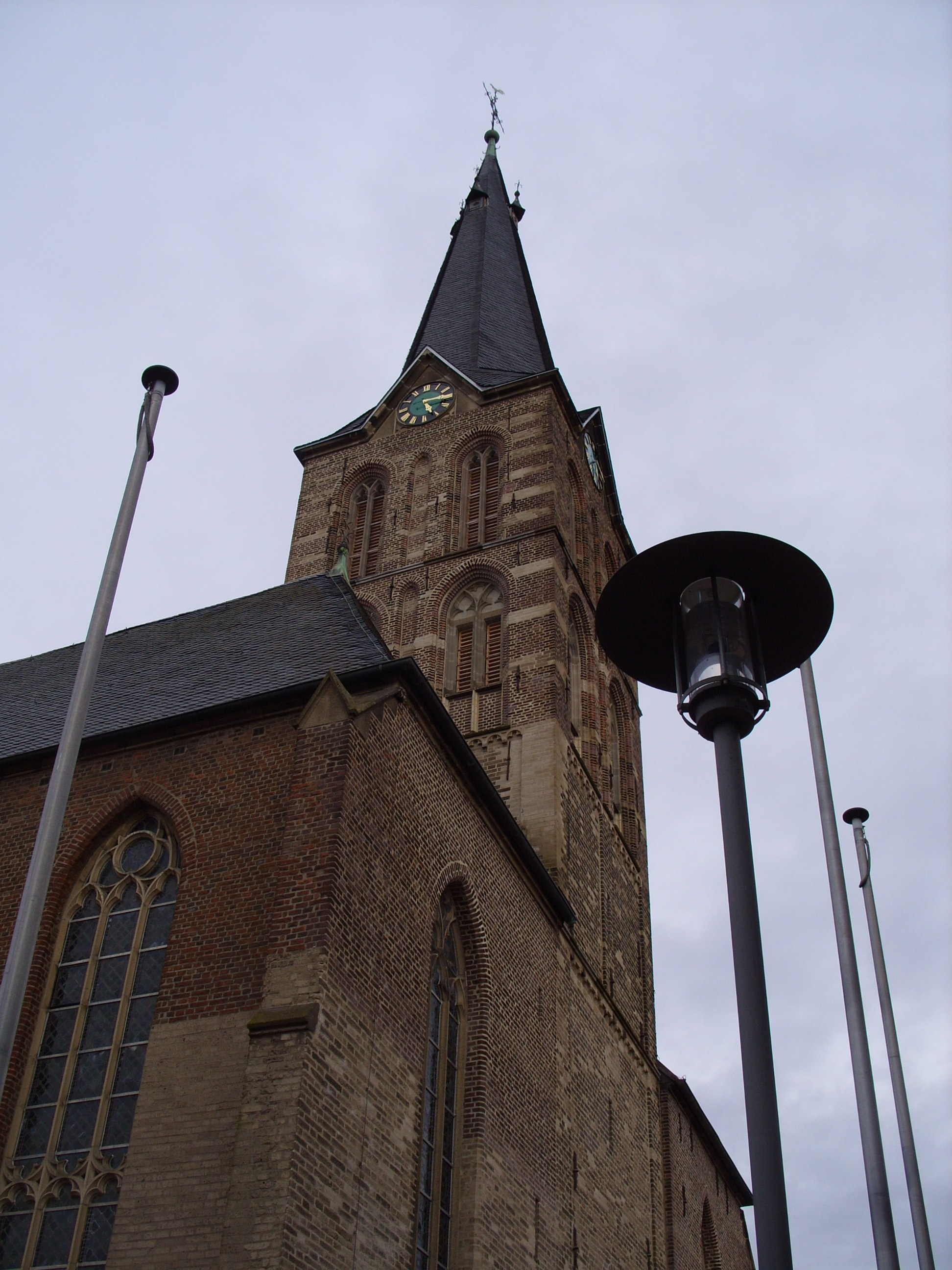 Catholic church St. Peter und Paul in Straelen.